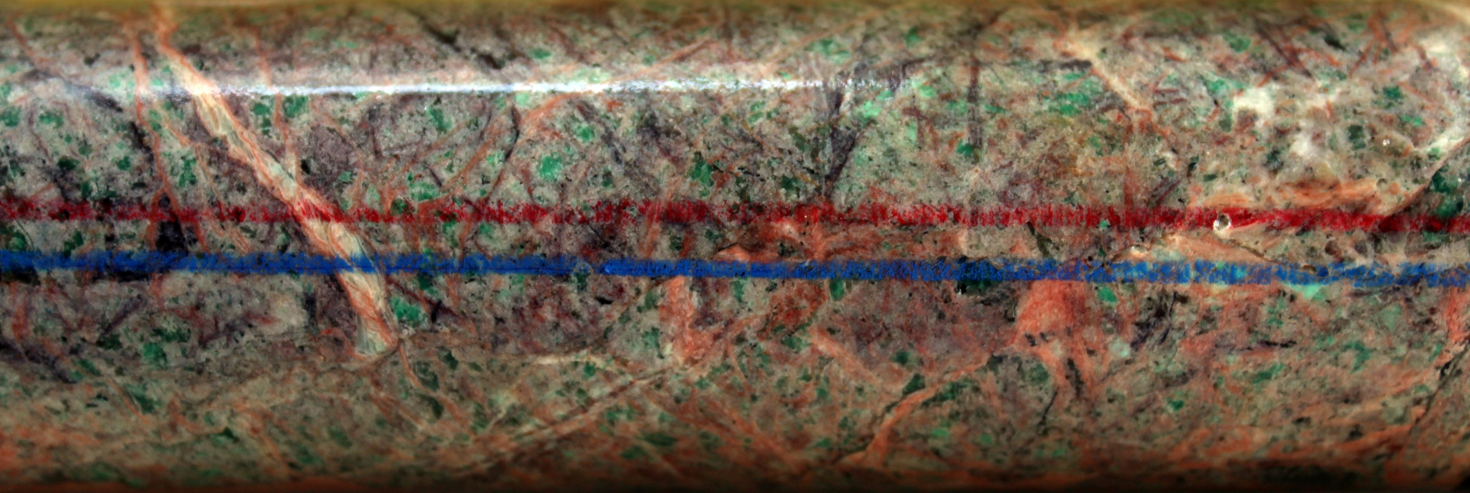 Drill core of the listwanite at the base of the Samail ophiolite, northern Oman. Core dimension NQ